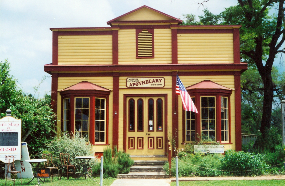 The restored old time drugstore or apothecary of Edward Henkel, a pharmacist who also laid out the town of Round Top, Texas, and was its first mayor. It is located on the Henkel Square, named for him.